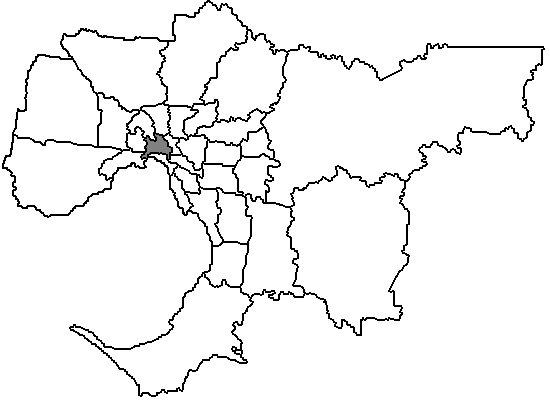 Map of the local government areas of Greater Melbourne, Australia, central city area (City of Melbourne) in grey